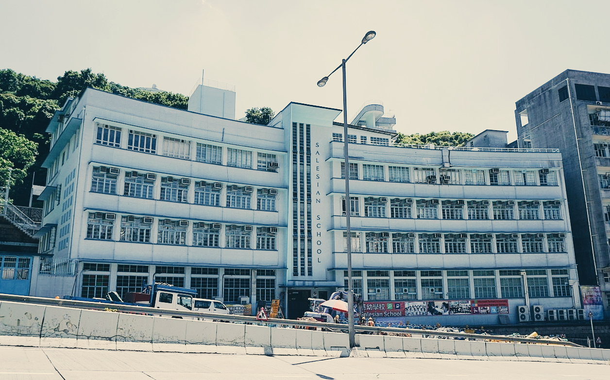 The front view of Salesian School